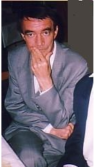 Family photo on Jean Claude Piumi.